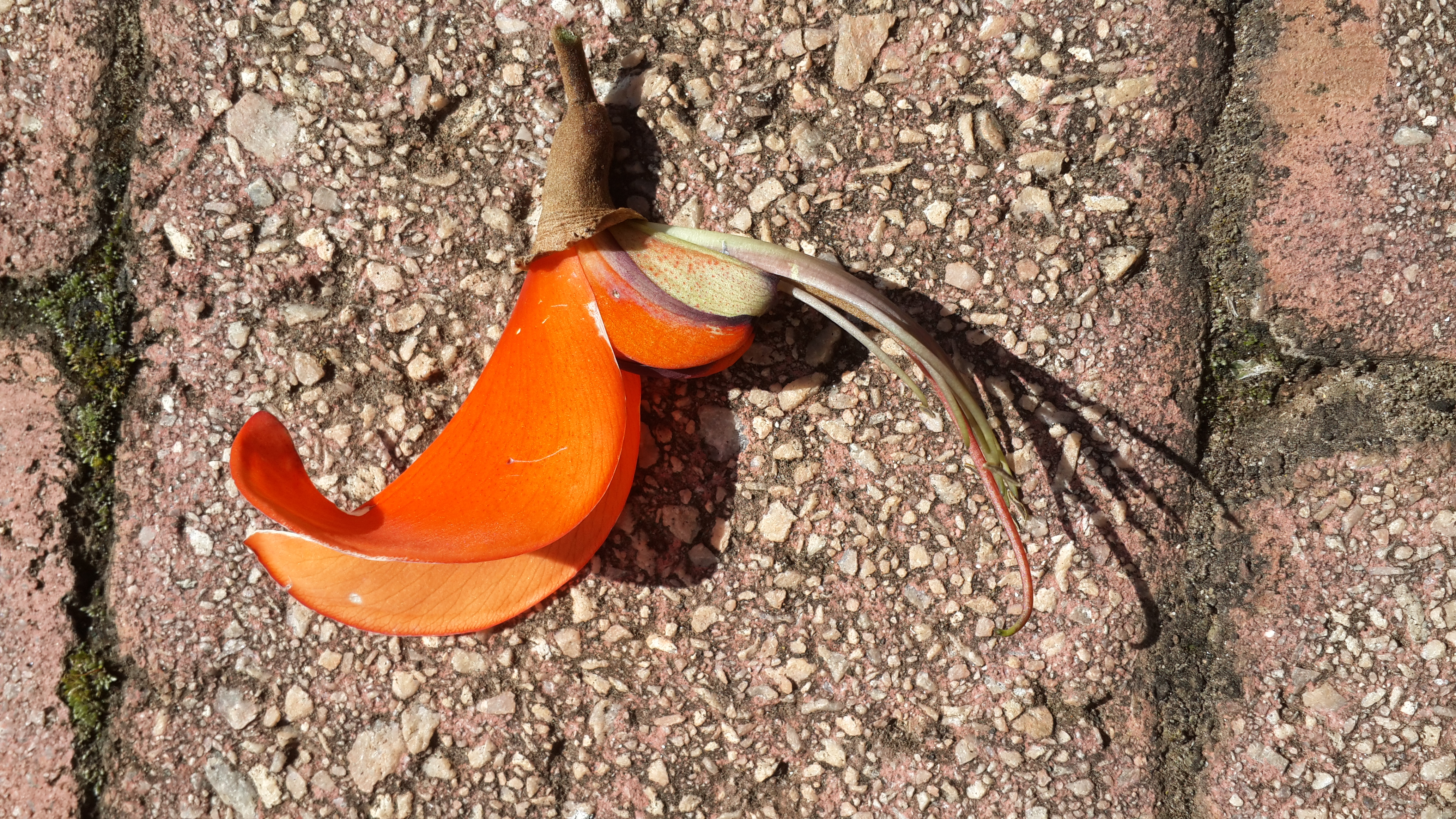 An image shoing the curved main petal exposing the stamens and four small petals.